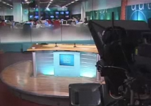 Old Studio24 of Yle, Finnish Broadcasting Company. (1999-2007)